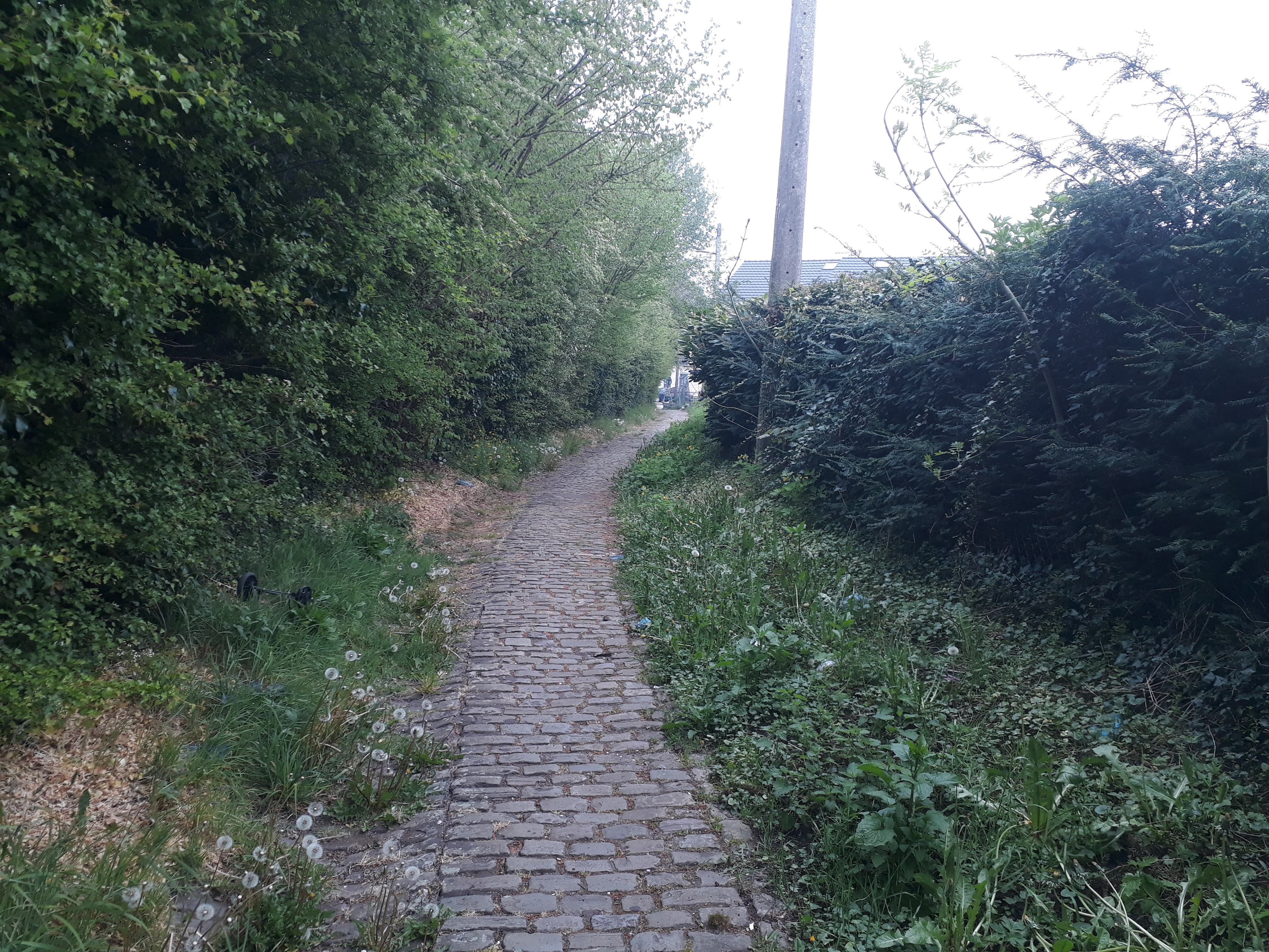 Chemin numéro 26 à Vottem